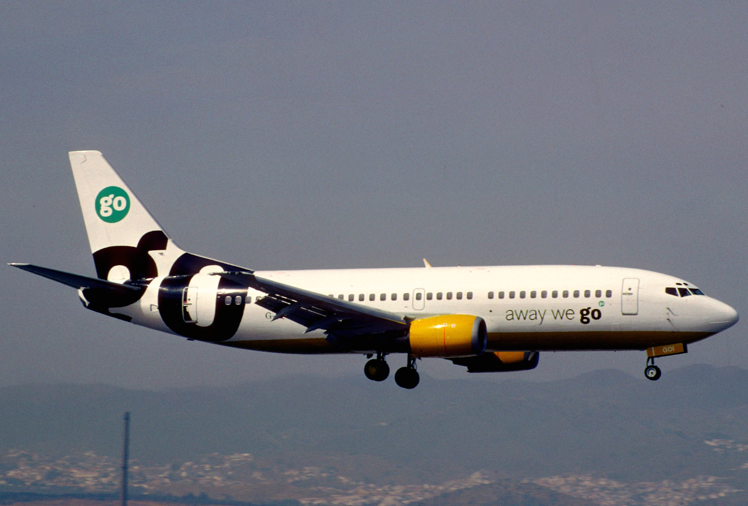 Go Fly Boeing 737-33A; G-IGOI@AGP, June 1999/ BXY